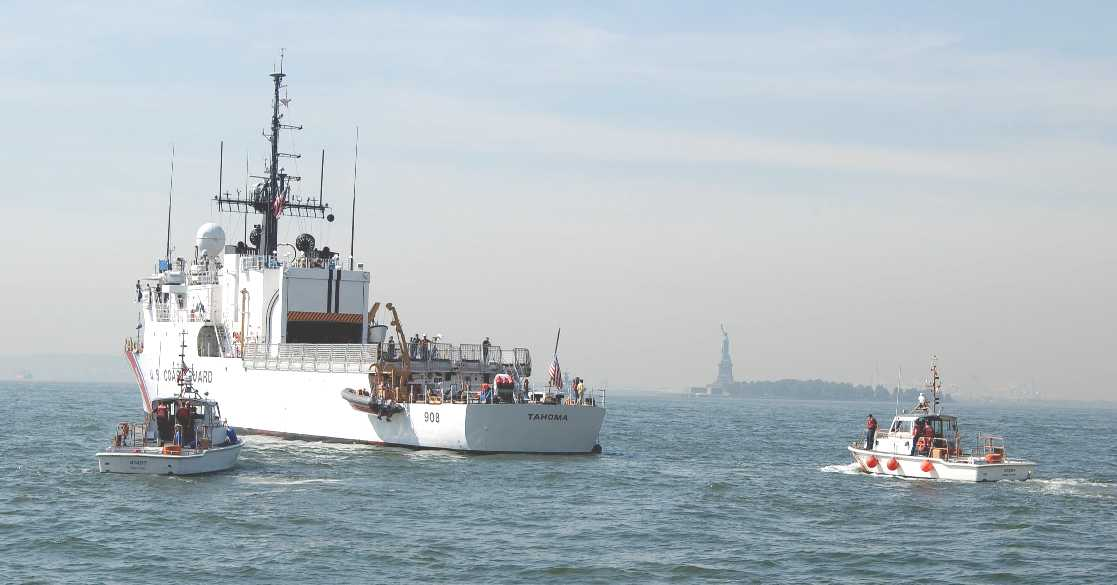 The Coast Guard Cutter Tahoma guards the Hudson River September 17 2001 as part of port security duties after [the] September 11 2001 terrorist attack on the World Trade Centers in New York.